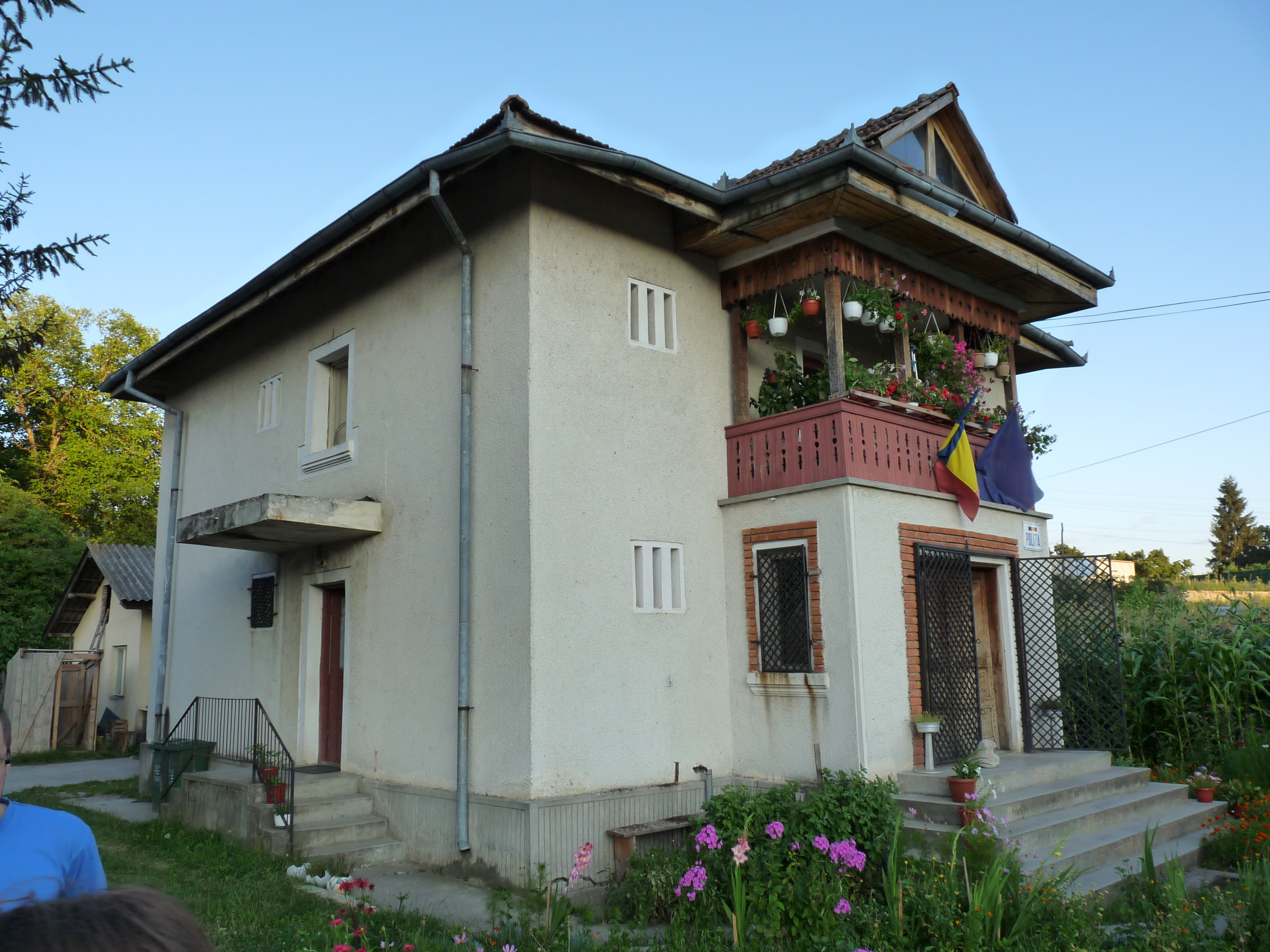 The police station in Ceparii Pământeni, Argeş County, Romania